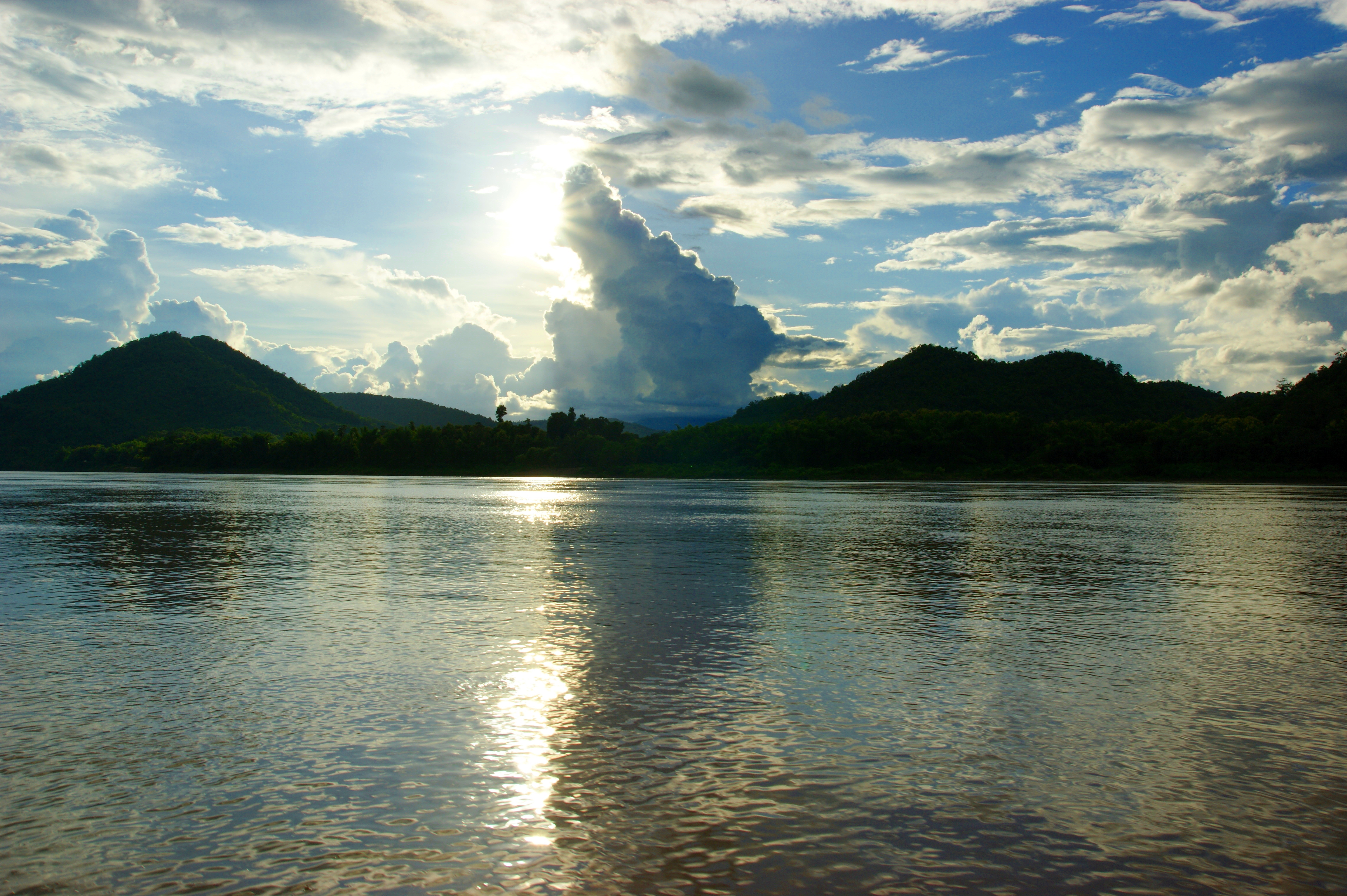 2009-08-30 09-03 Luang Prabang 169 Mekong